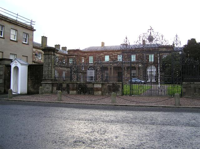 The plaque at the front reads, "Ancient Monuments Act Northern Ireland, 1926. There Eighteenth Century wrought iron gates stood originally at the entrance to Richill Castle, County Armagh then the property of the Richardson family the property having come into the possession of the Government of Northern Ireland the gates were declared to be an ancient monument and for their better preservation and display were removed from their original site and erected in their present position by the Ministry of Finance for Northern Ireland during the rebuilding of Hillsborough House after its destruction by fire - November, 1936"